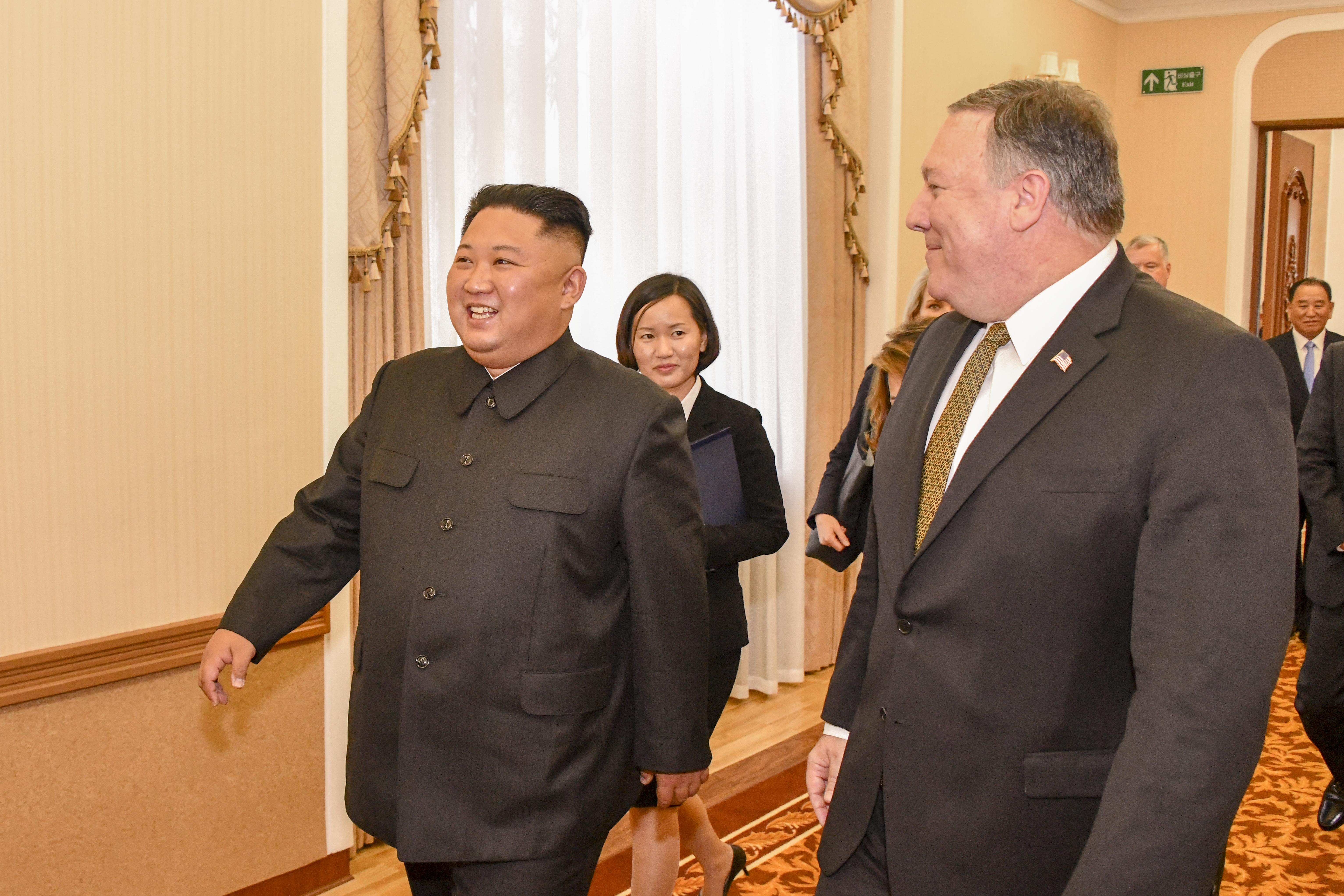 Secretary of State Michael R. Pompeo and Chairman Kim Jong Un of the Democratic People's Republic of Korea attend a working lunch in Pyongyang, Democratic People's Republic of Korea on October 7, 2018. [State Department photo/ Public Domain]